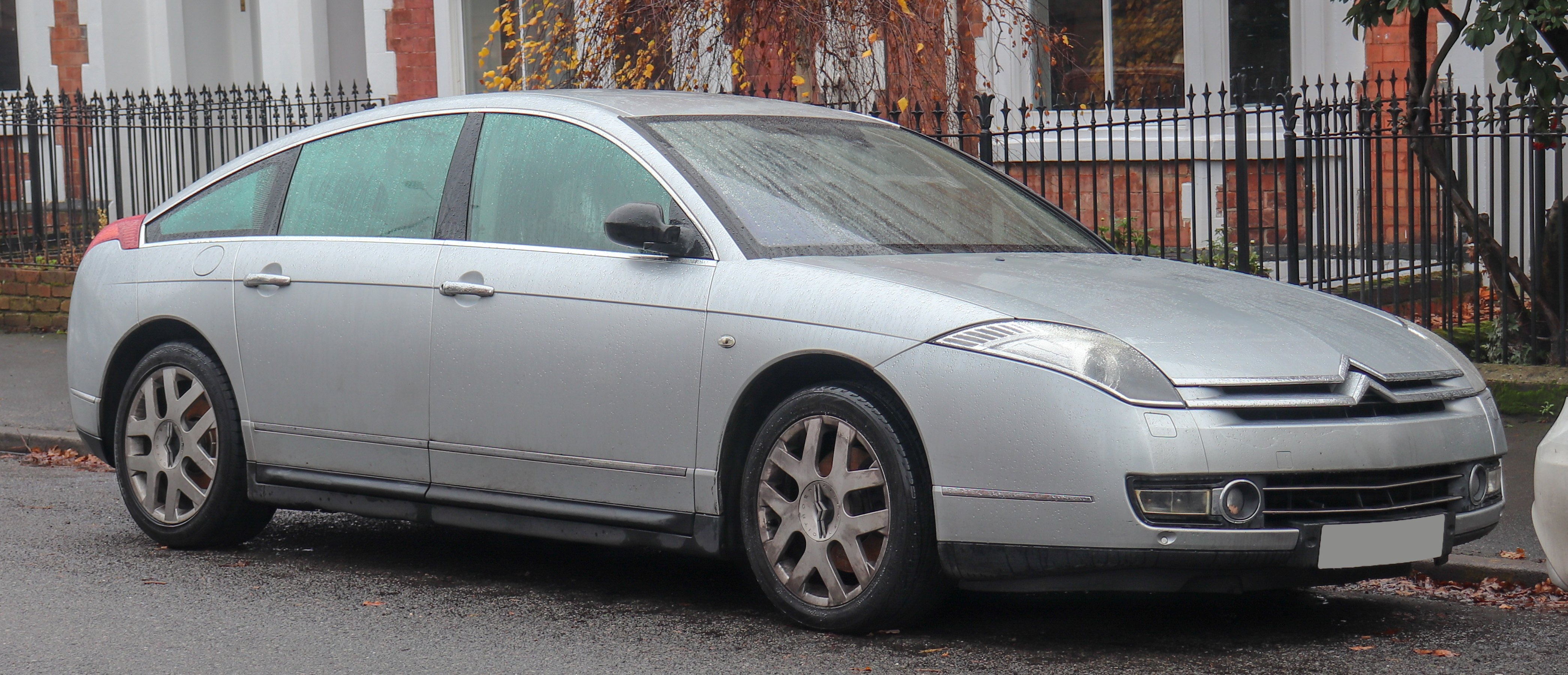 2006 Citroen C6 Exclusive HDi Automatic 2.7 Front Taken in Leamington Spa